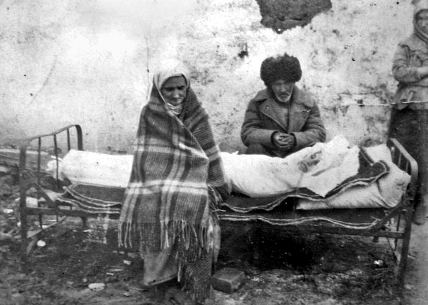 Ingush family Gazdievs mourns at the body of the deceased daughter. Kazakhstan. The deportation of the Ingush people in 1944